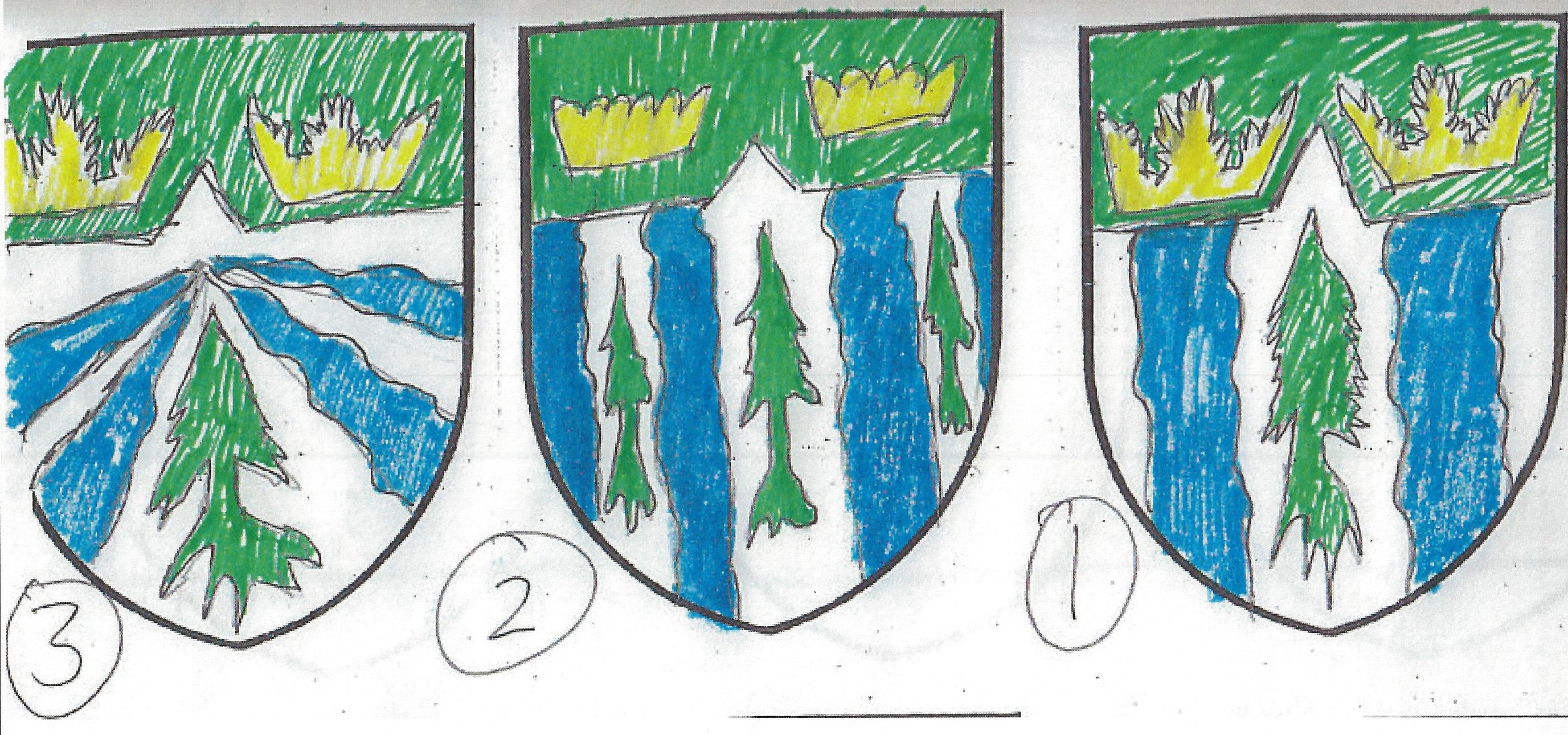 Three designs mulled over by the Grant of Arms Committee during their meeting at the Carlisle Golf & Country Club on April 10th, 2010.